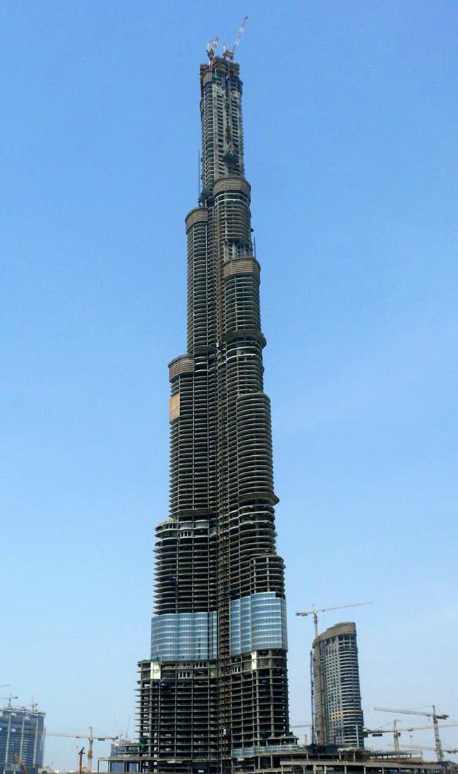 Burj Dubai, taken by me on August 9, 2007